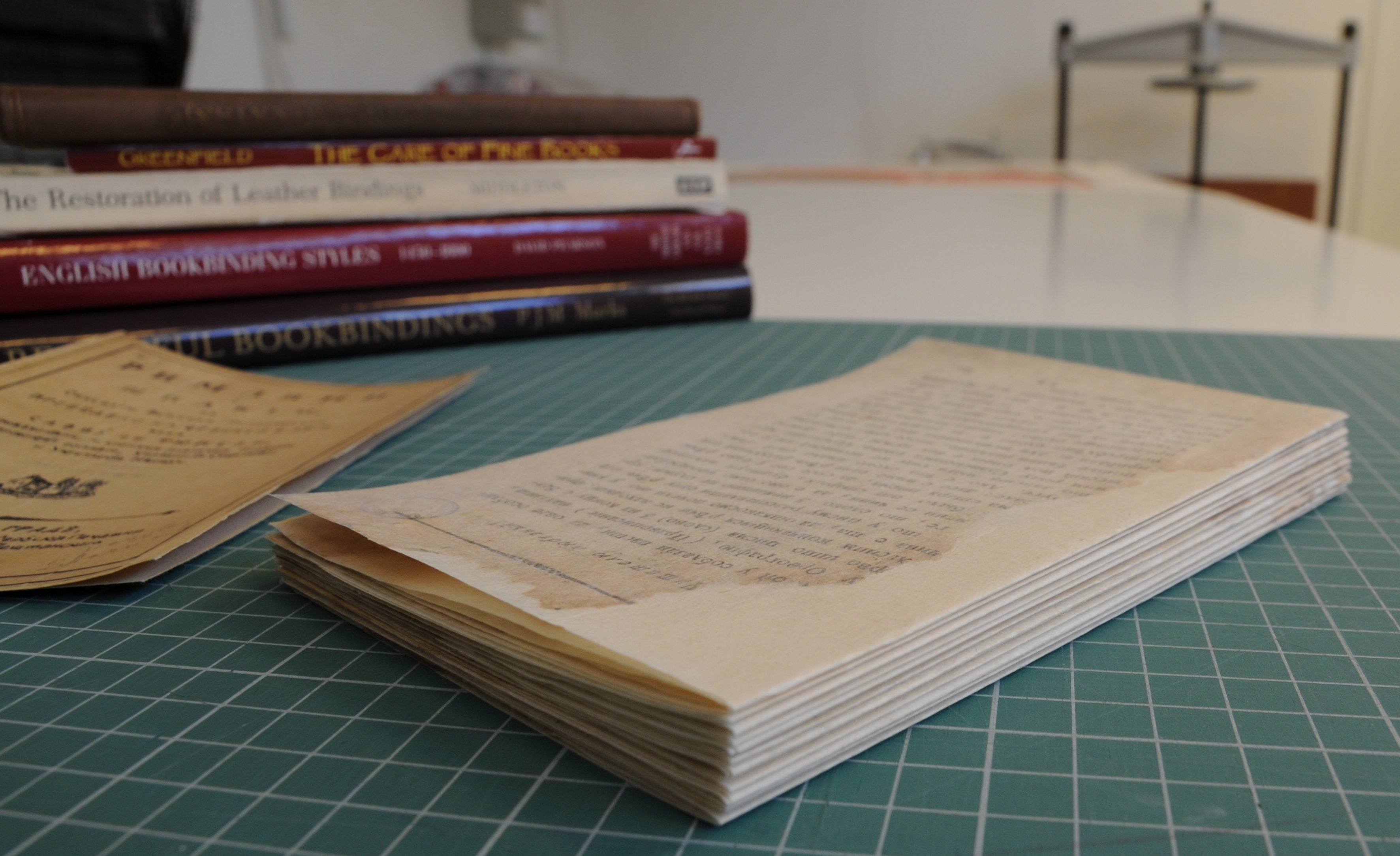 National Library of Serbia, A book after the restoration process, ready for rebinding